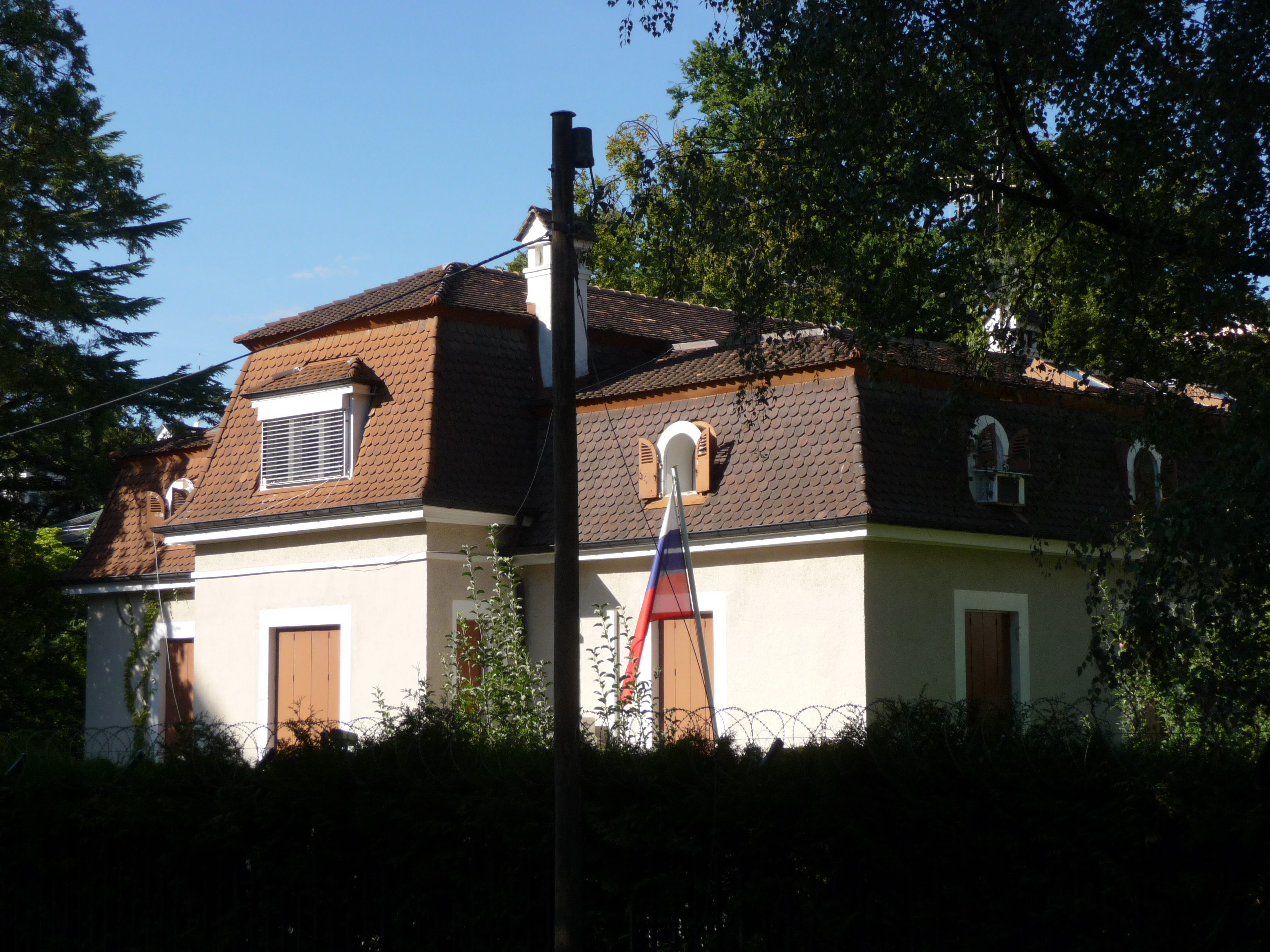 Russian Consulate in Geneva